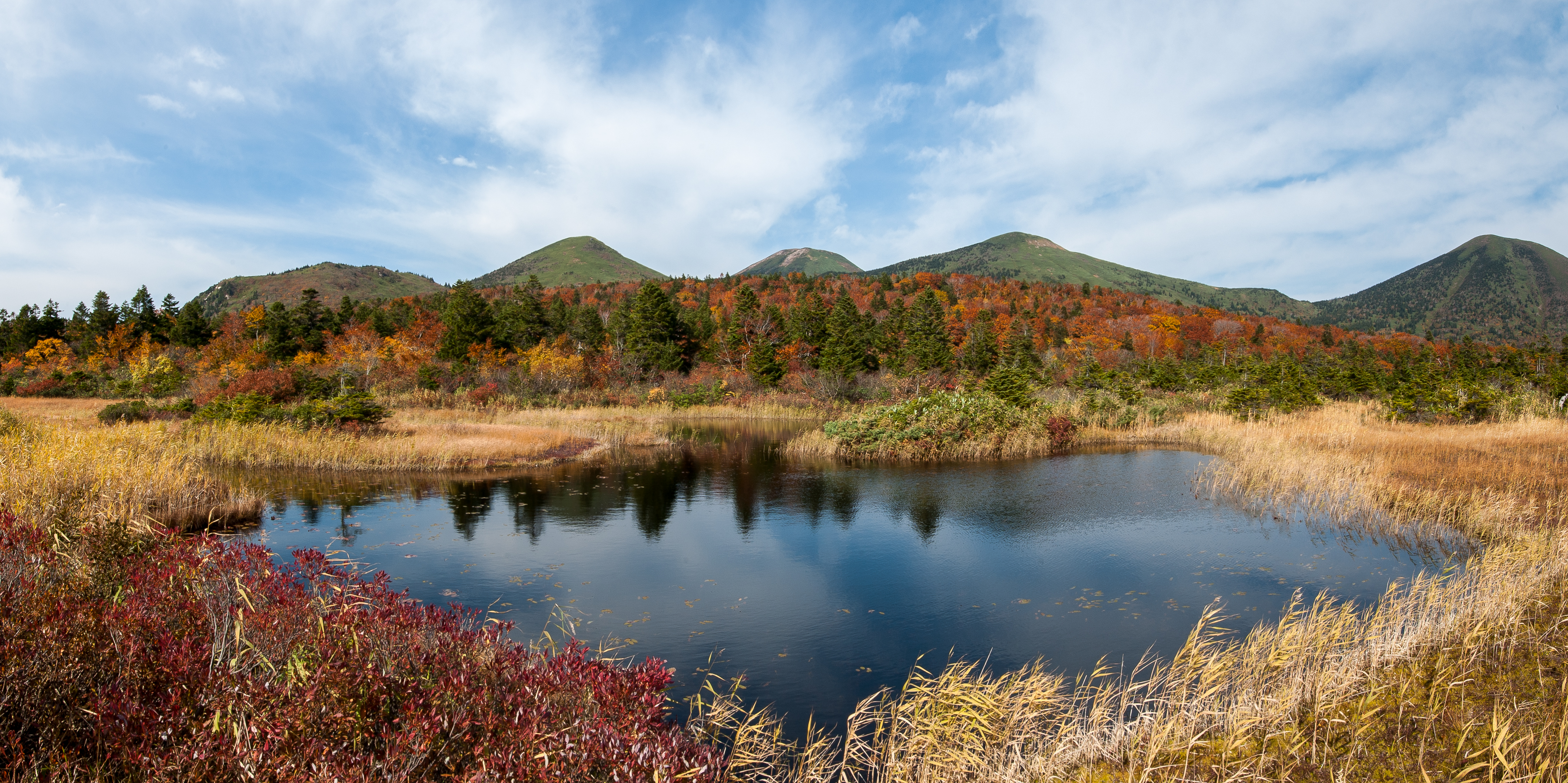 Suiren Pond with North Hakkoda Mountains in Aomori Prefecture, Japan.